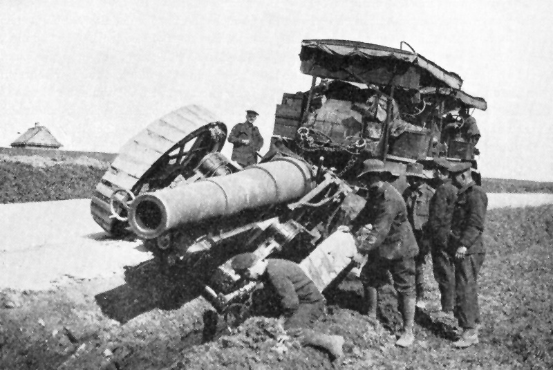 Photograph of British 8 inch howitzer Mk VI which has slid off the road into a ditch while being towed by a Holt tractor, Western Front, World War I. Comment : The presence of ANZAC troops with their distinctive hats and looser-fitting jackets indicates this is probably of the Australian 1st Siege Artillery Battery.